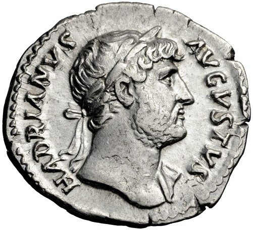 Hadrian Denarius